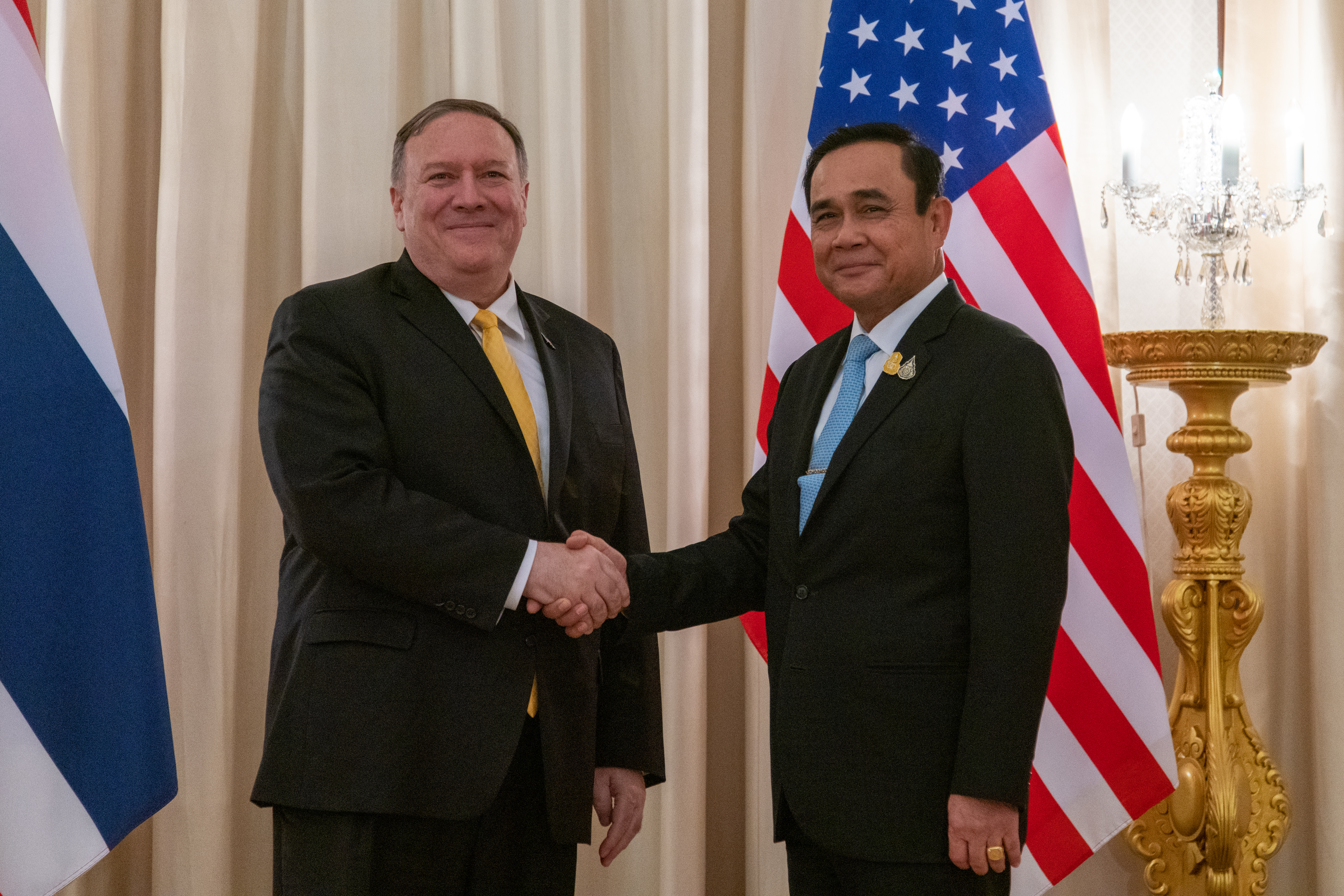 U.S. Secretary of State Michael R. Pompeo meets with Thai Prime Minister Prayut Chan-o-cha in Bangkok, Thailand, on August 2, 2019. [State Department Photo by Ron Przysucha/ Public Domain]